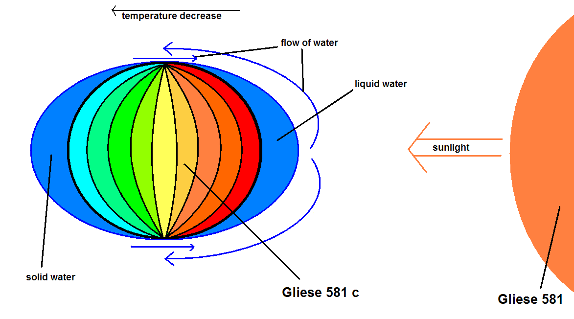 The hydrosphere of Gliese 581 c